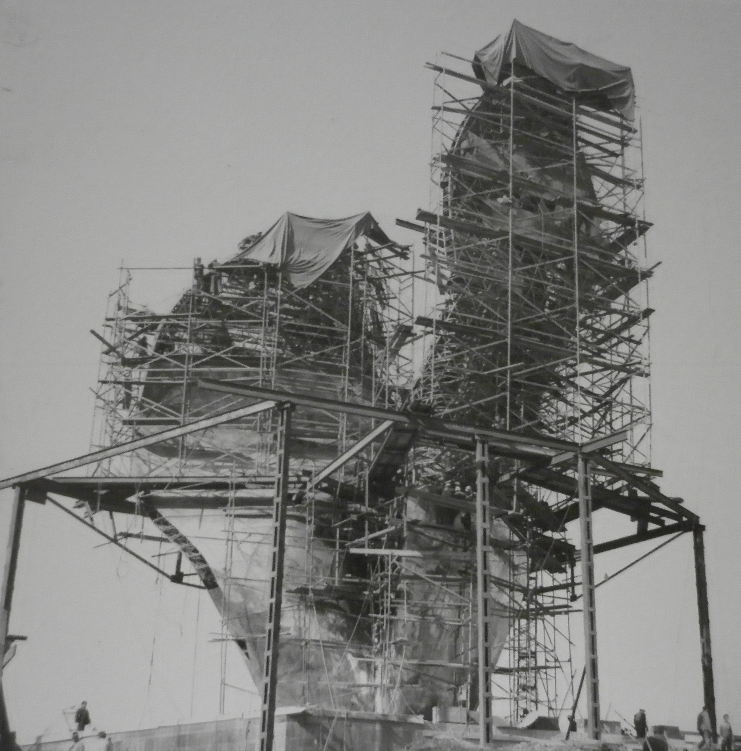 Monument of the Revolutionary Victory of The People of Slavonia during construction. Part of the exhibition "Vojin Bakić retrospective" (December 6, 2013 - March 2, 2014) in the Museum of the Contemporary Art in Zagreb.